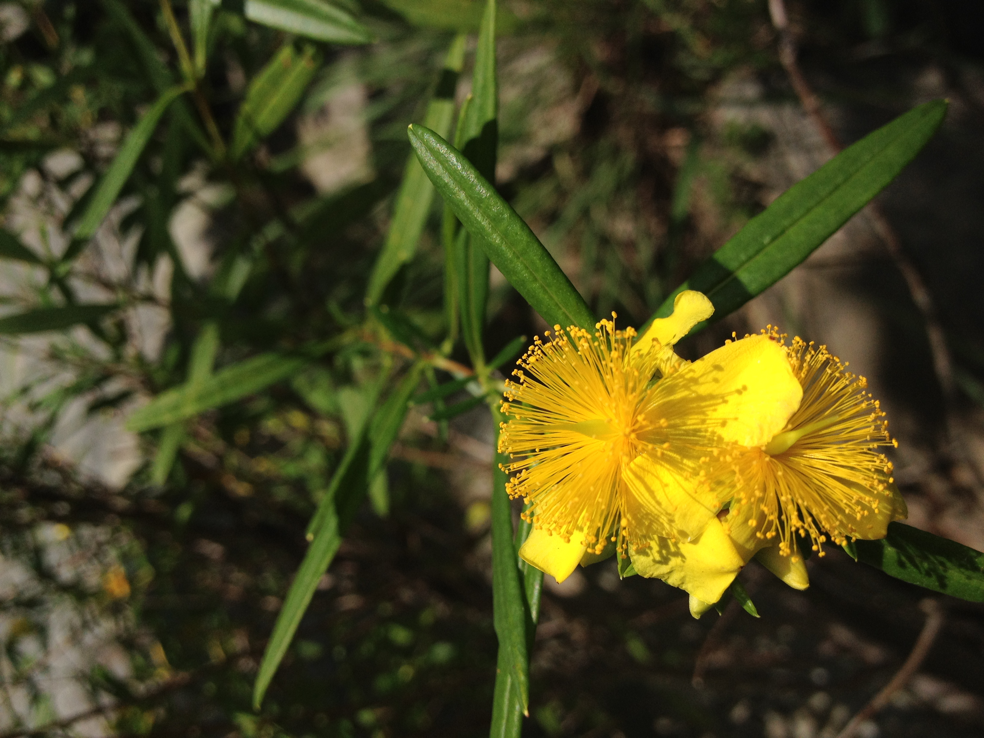 Photo of Hypericum prolificum in flower. This is a native plant growing wild in the C & O Canal National Historical Park, Montgomery county Maryland, USA. This species is a member of the Hypericaceae family.